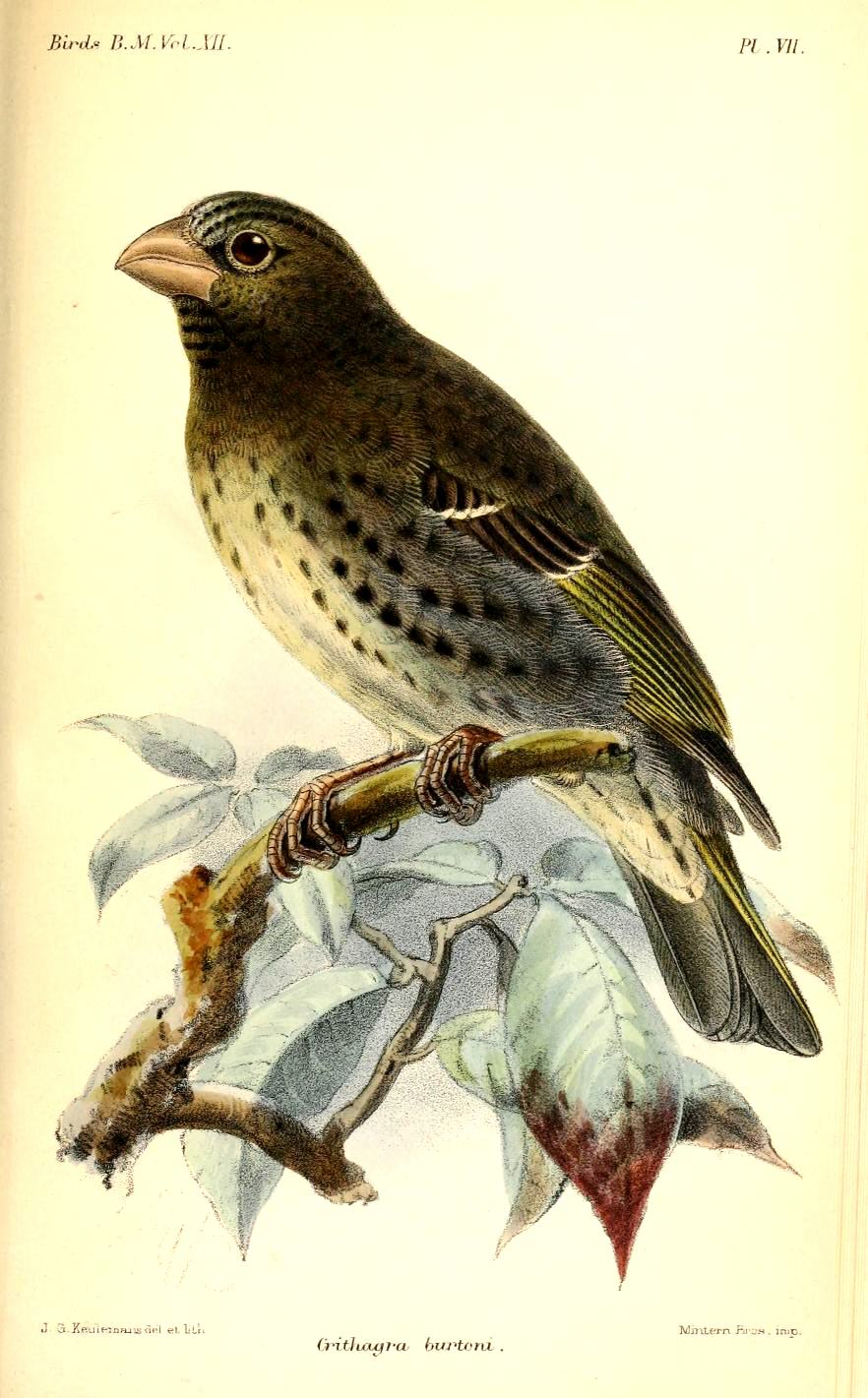 Crithagra burtoni = Serinus burtoni, Thick-billed Seedeater